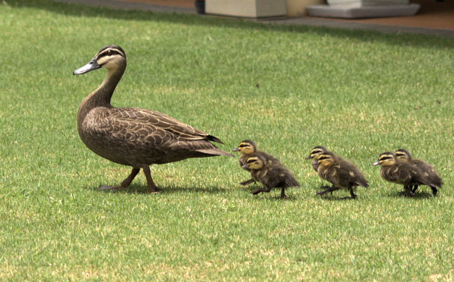 Duck & Ducklings out for a Morning Walk, Hervey Bay Australia